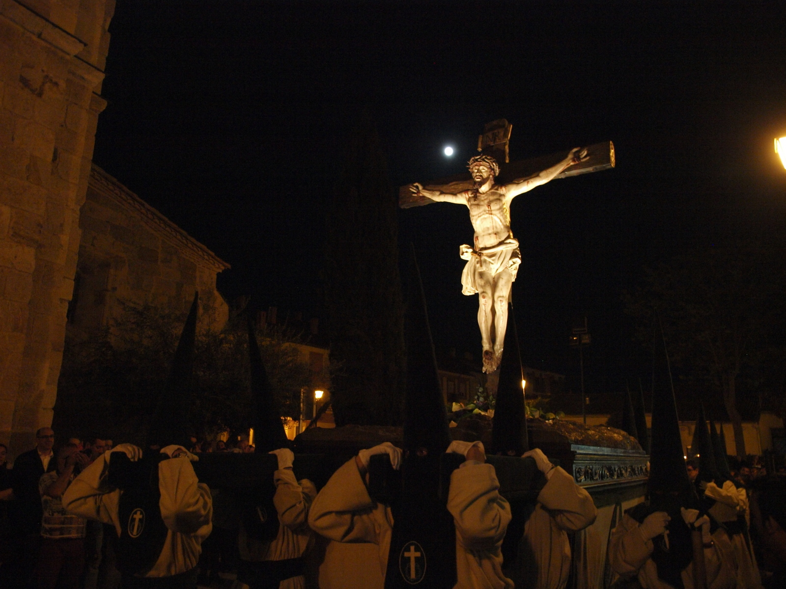 Procession of the religious brotherhood Hermandad Penitencial de las Siete Palabras, Zamora, Spain, Holy Week 2014